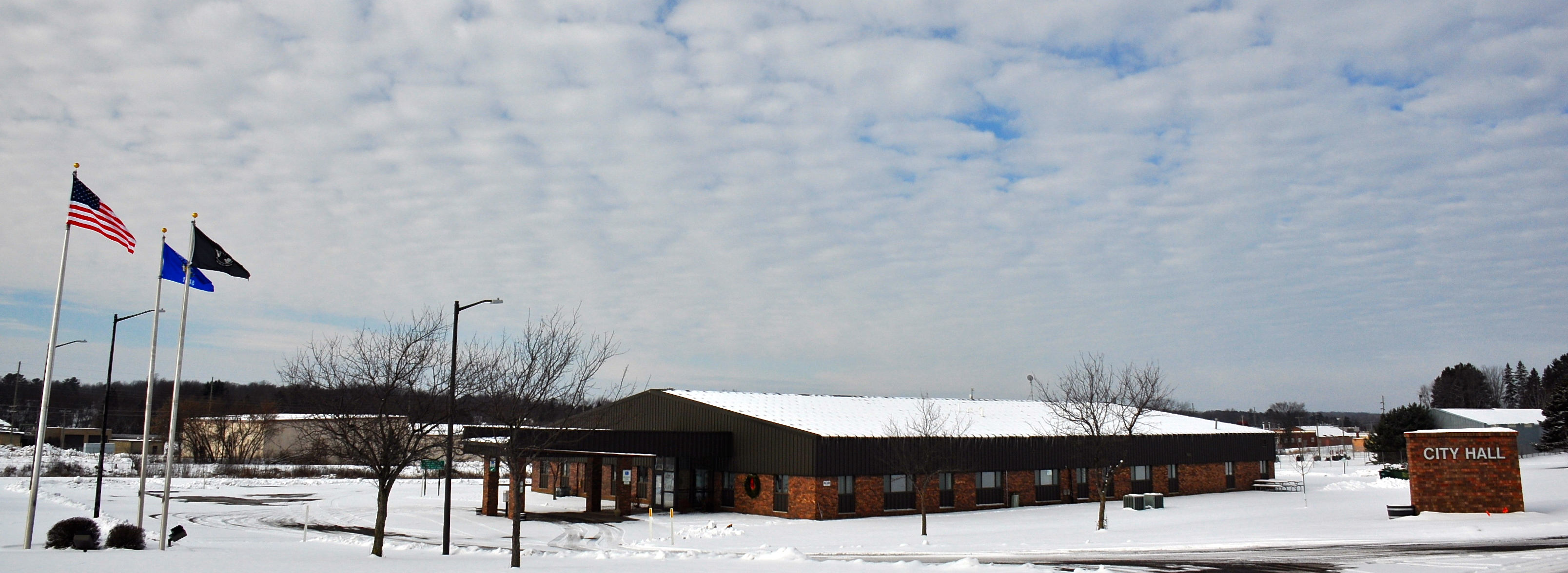 The new city hall in Medford, Taylor County, Wisconsin.